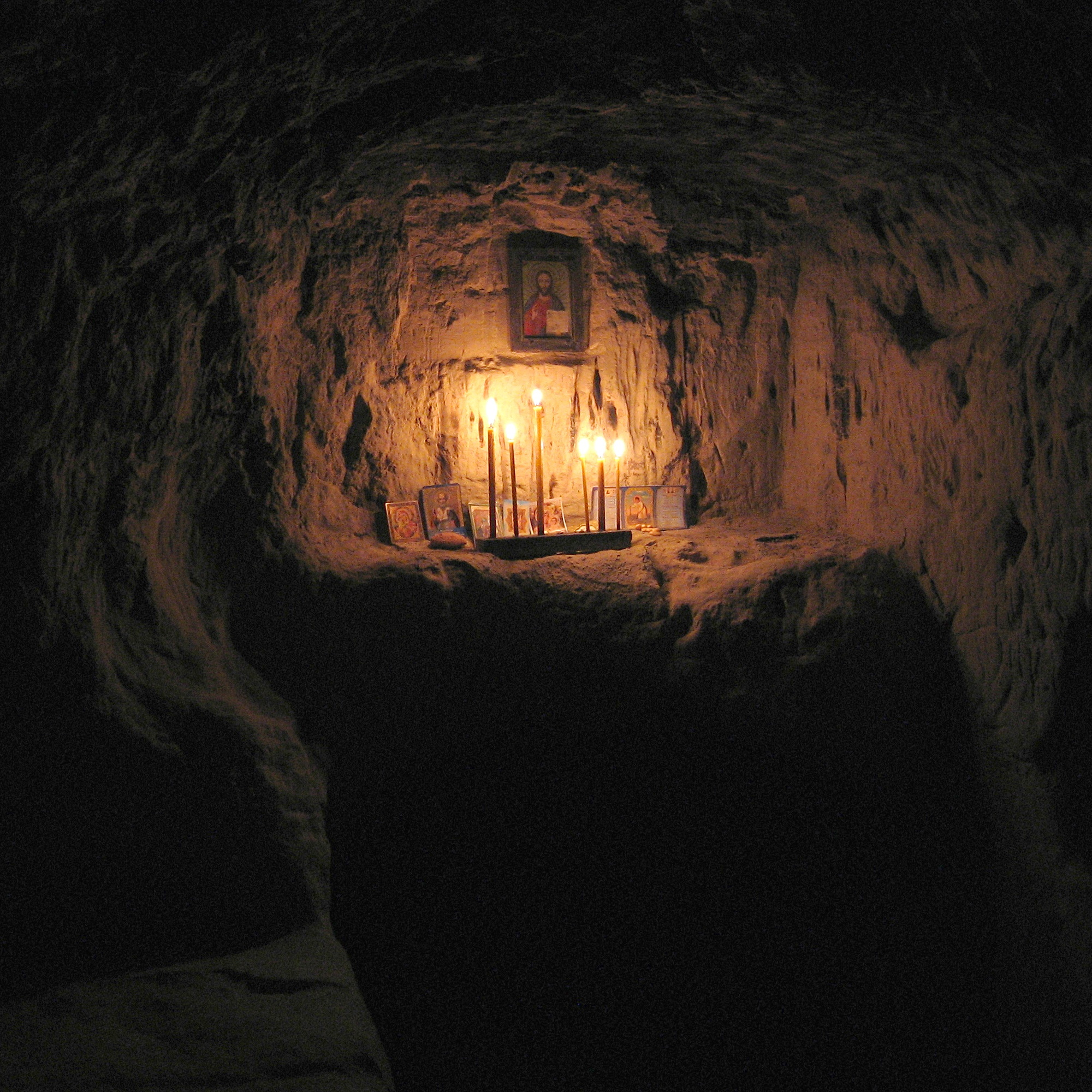 Cell in the caves of Kitaevo Hermitage (Kiev)